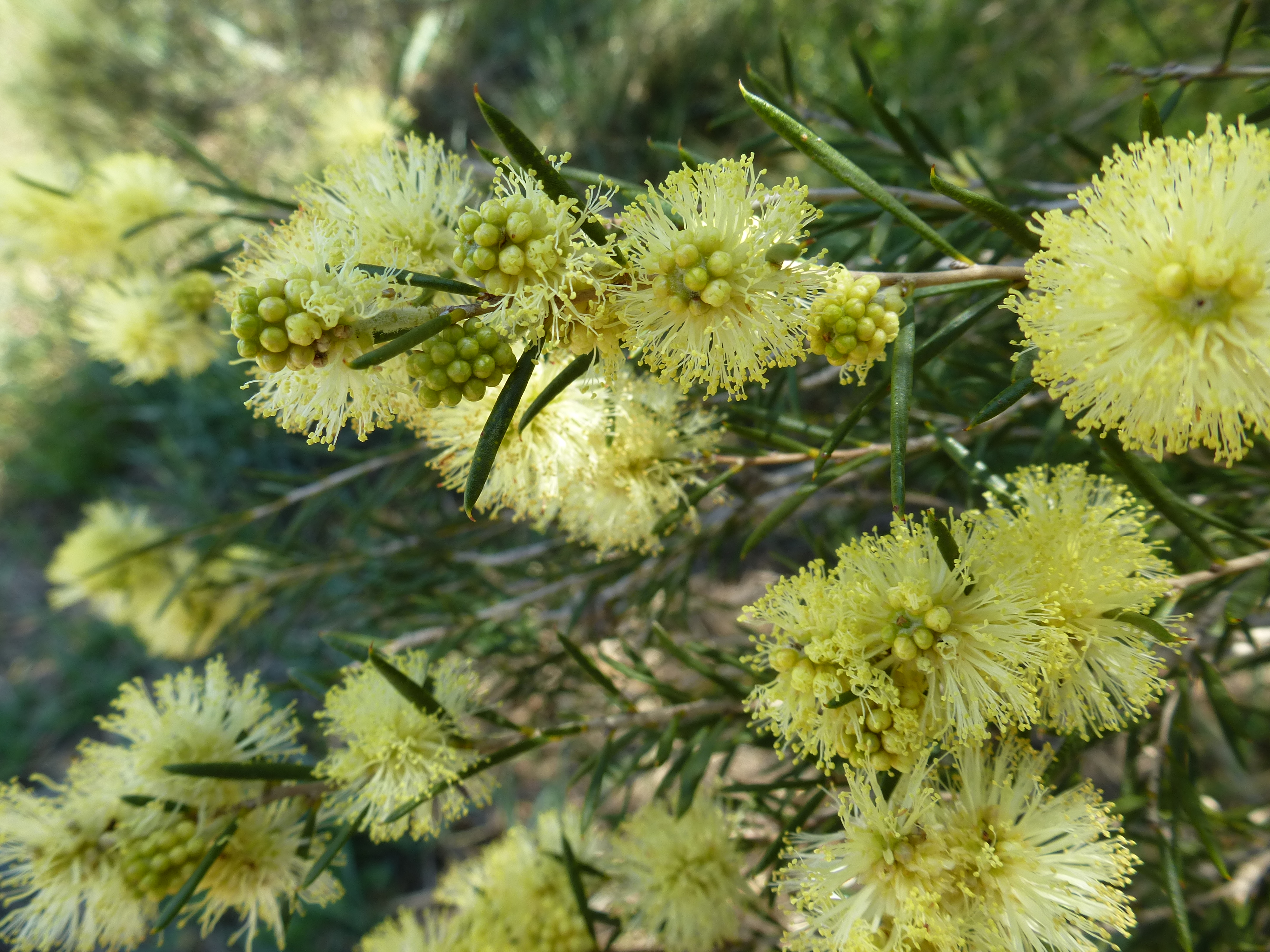 Melaleuca stereophloia growing 20 km east of Geraldton